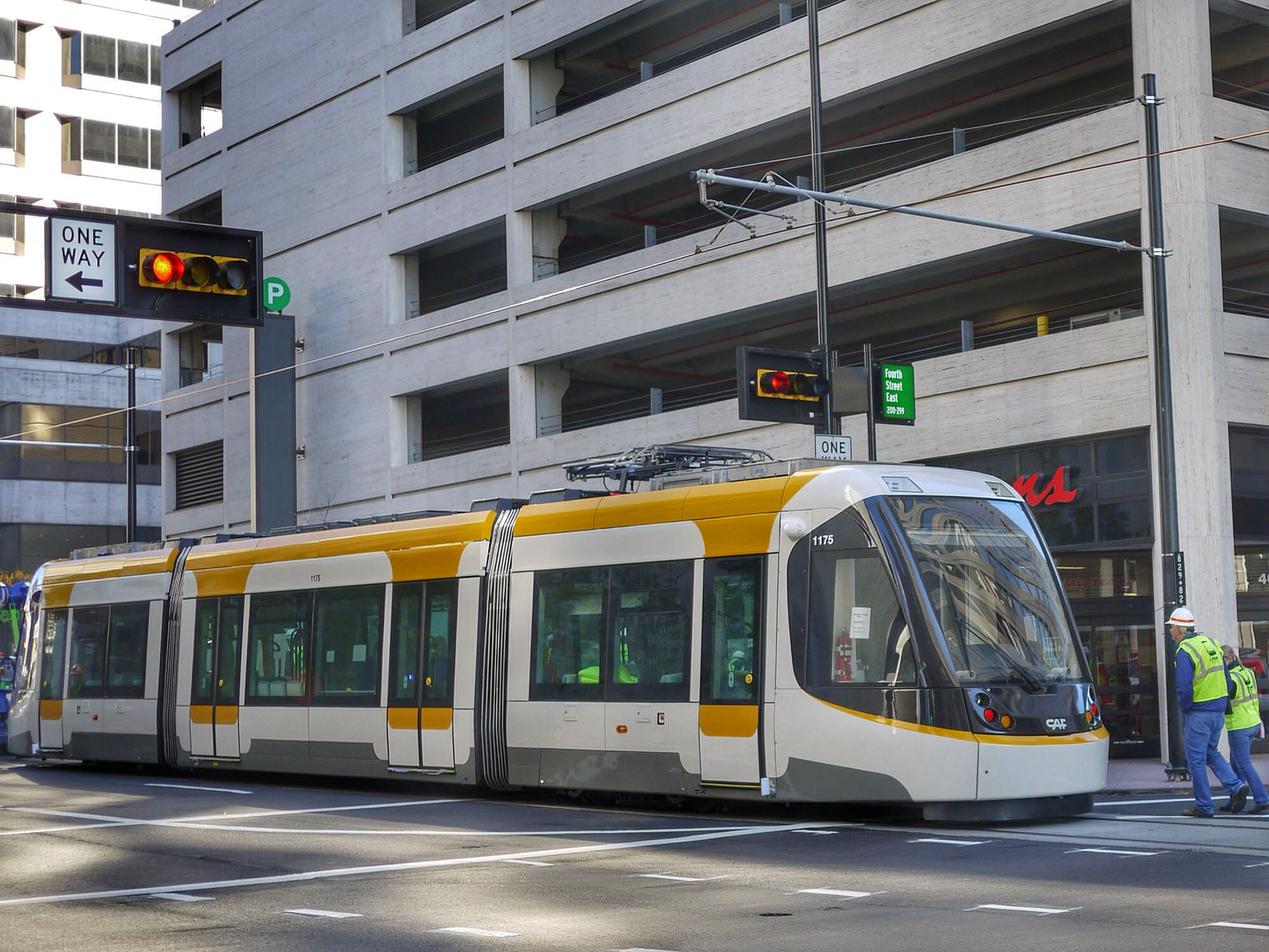 Car 1175 of the Cincinnati Streetcar system, the first CAF streetcar to be delivered, being towed along the line during initial testing. The location is on Main Street immediately north of E. 4th Street. Car 1175 arrived in Cincinnati and was unloaded on October 30, 2015.